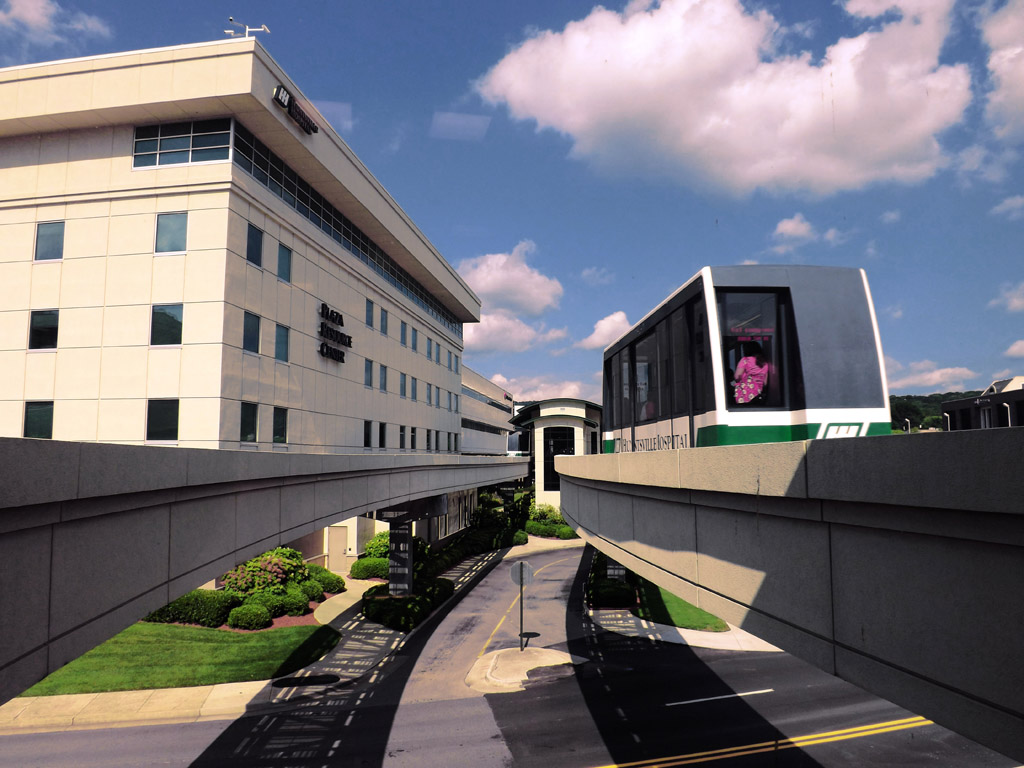 Huntsville Hospital Tram System Photograph by Larry Wilbourn